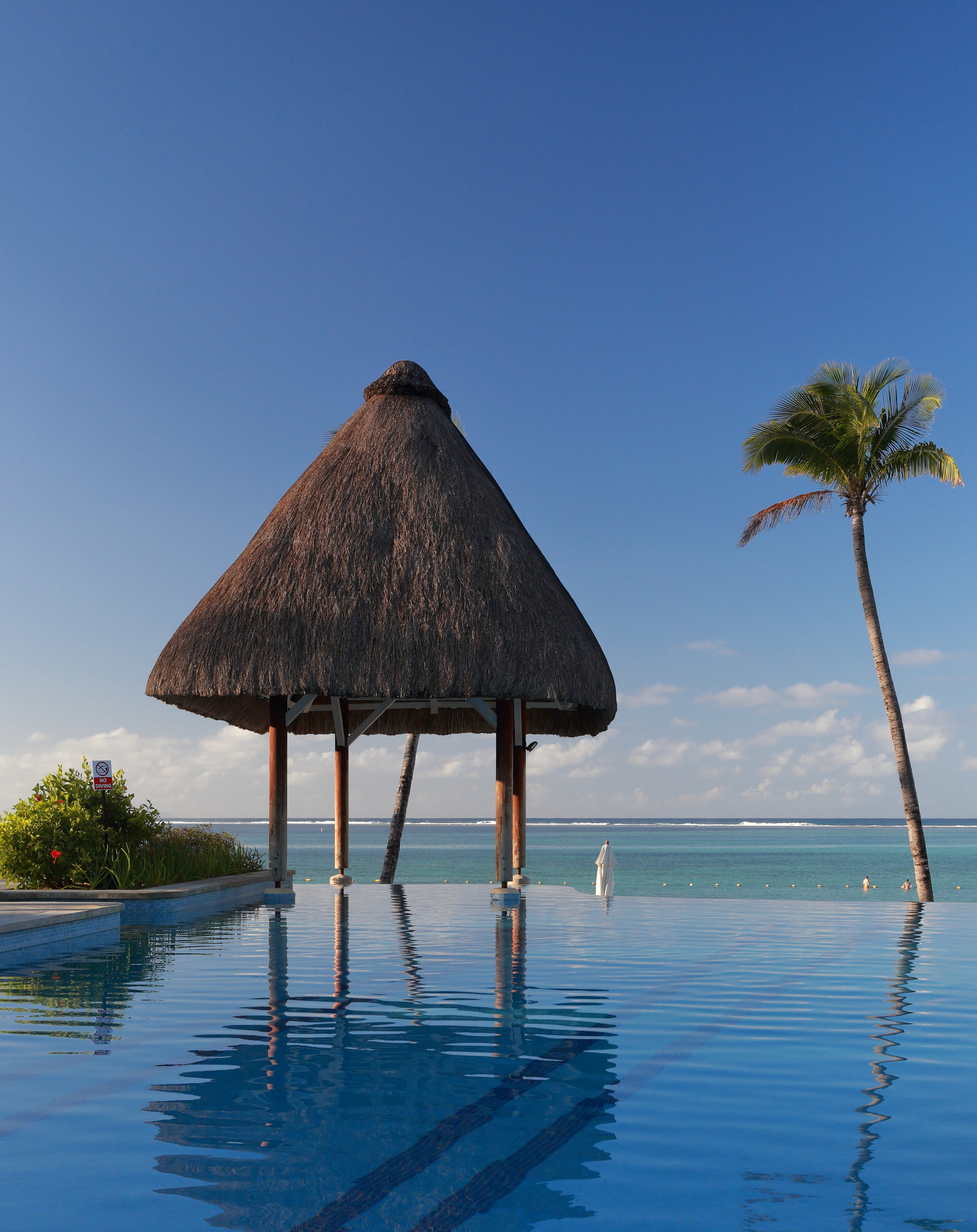 Infinity edge pool in a luxury resort, Mauritius